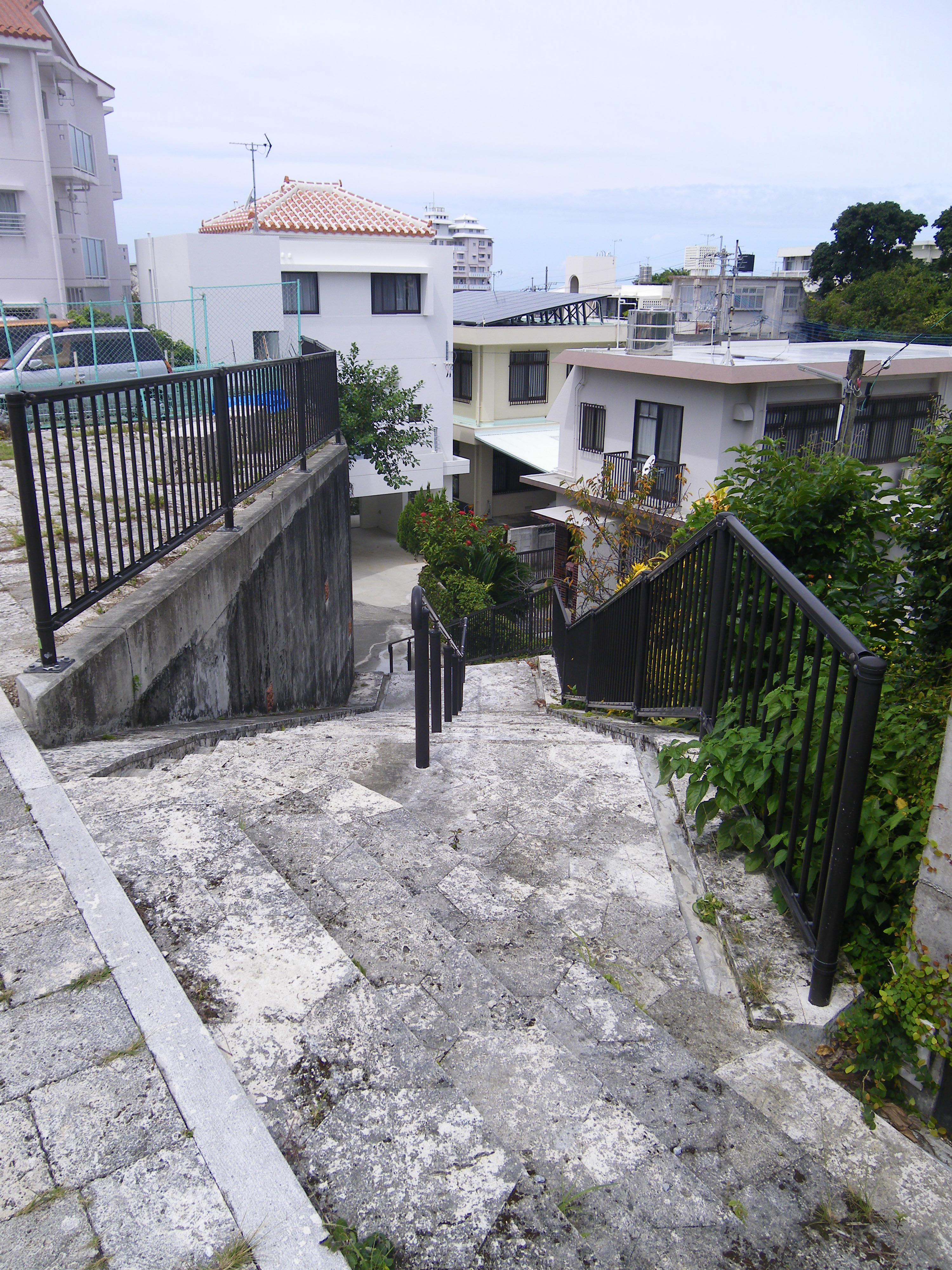 Tinsan Bira, a slope named after the road to worship the Tinsan Mausoleum from the Shuri Castle.